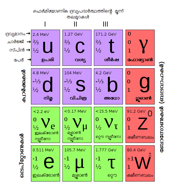 Standard model of elementary particles: the 12 fundamental fermions and 4 fundamental bosons.